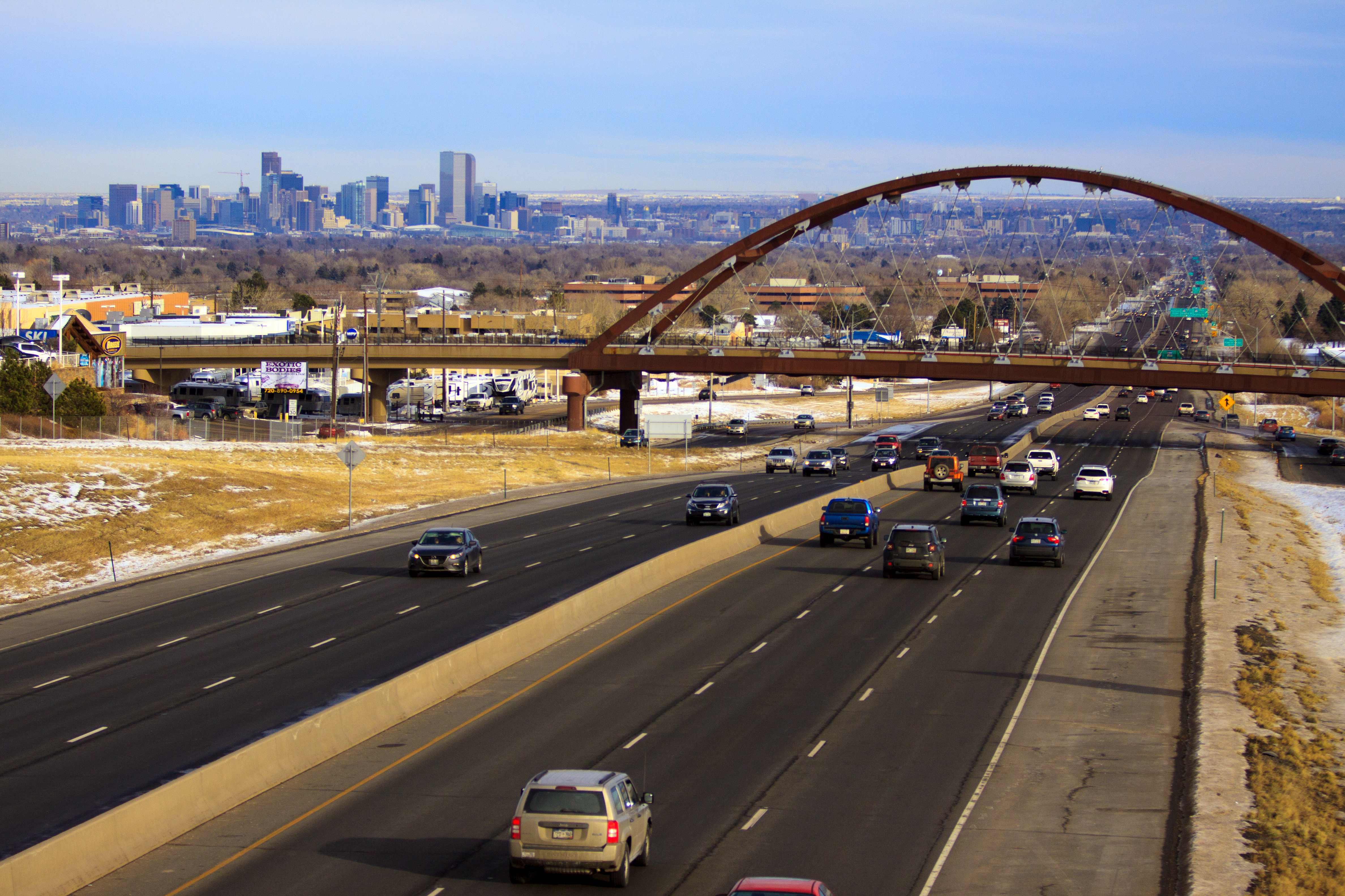 U.S. Route 6 eastbound towards Denver